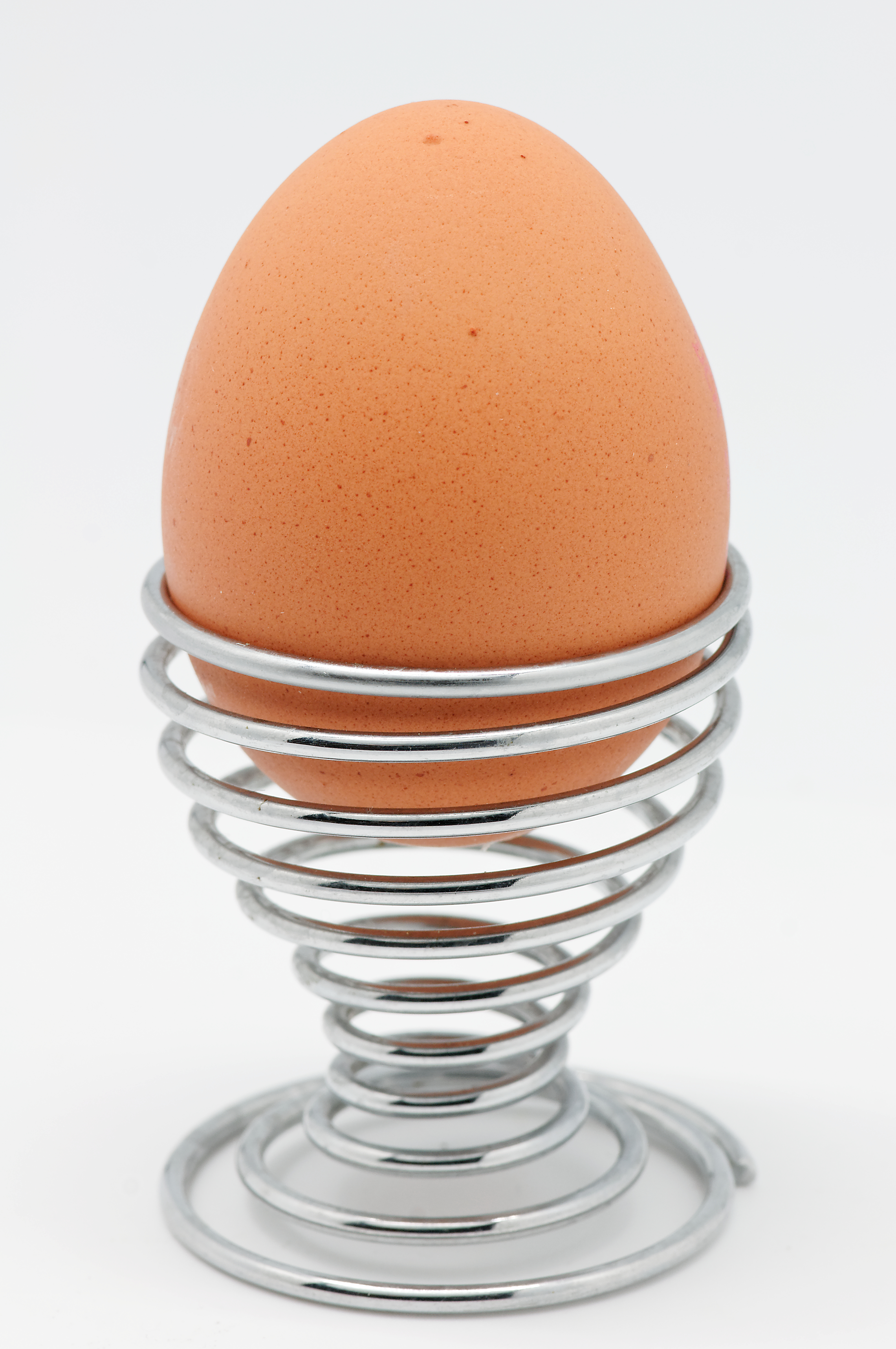 Egg in a metal spiral egg cup.